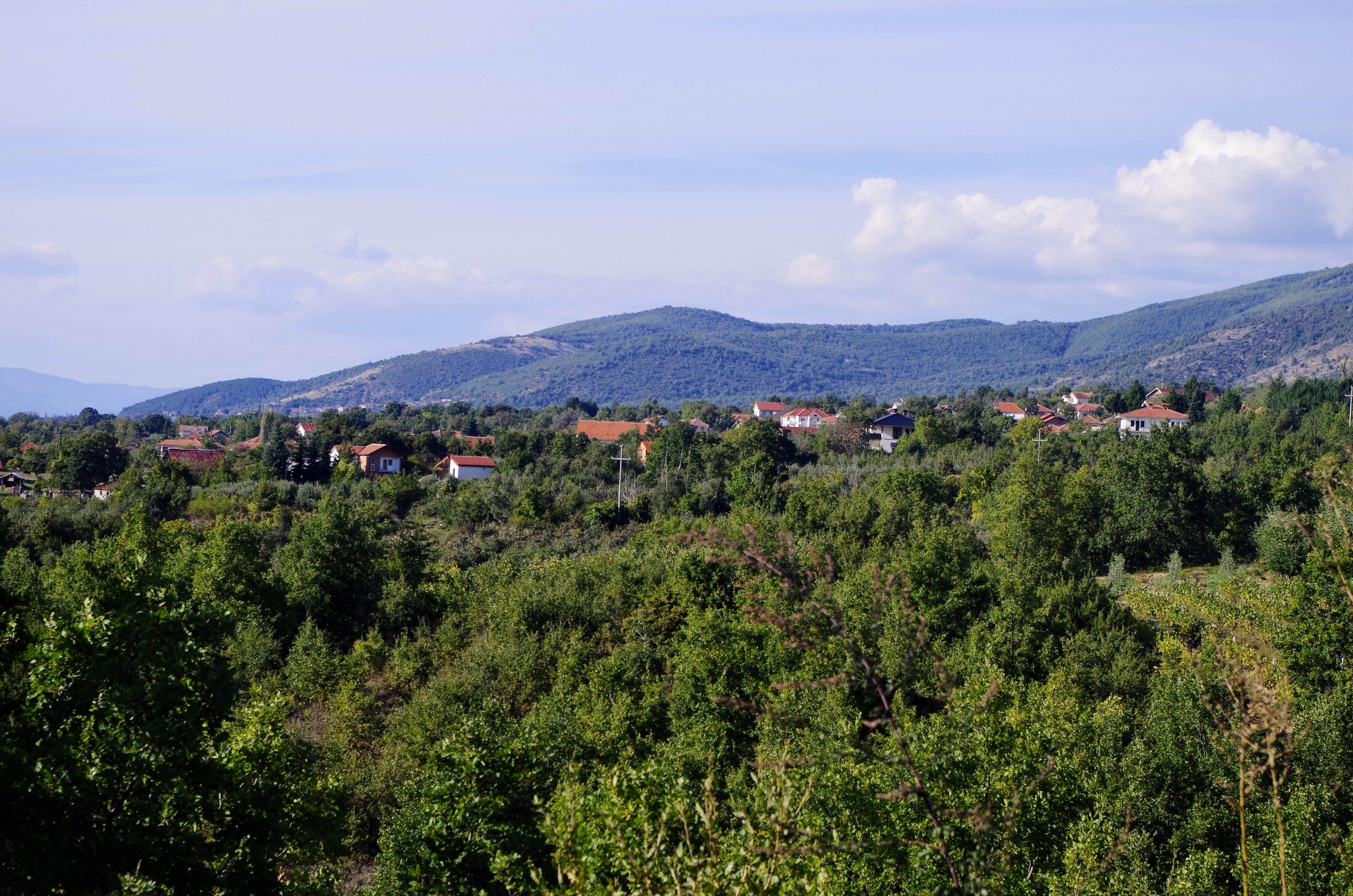 View of the village Štrbovo